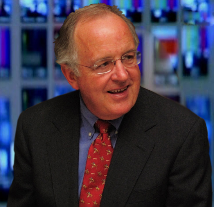 I took this photograph during an interview